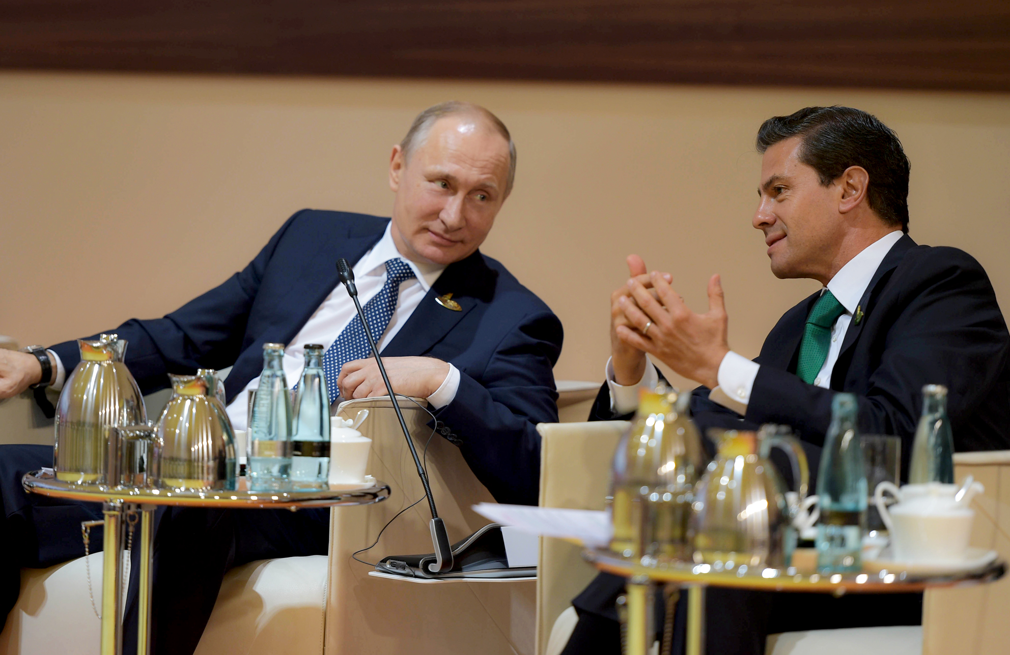 Vladimir Putin meets with Enrique Peña Nieto, G-20 Hamburg summit, July 2017